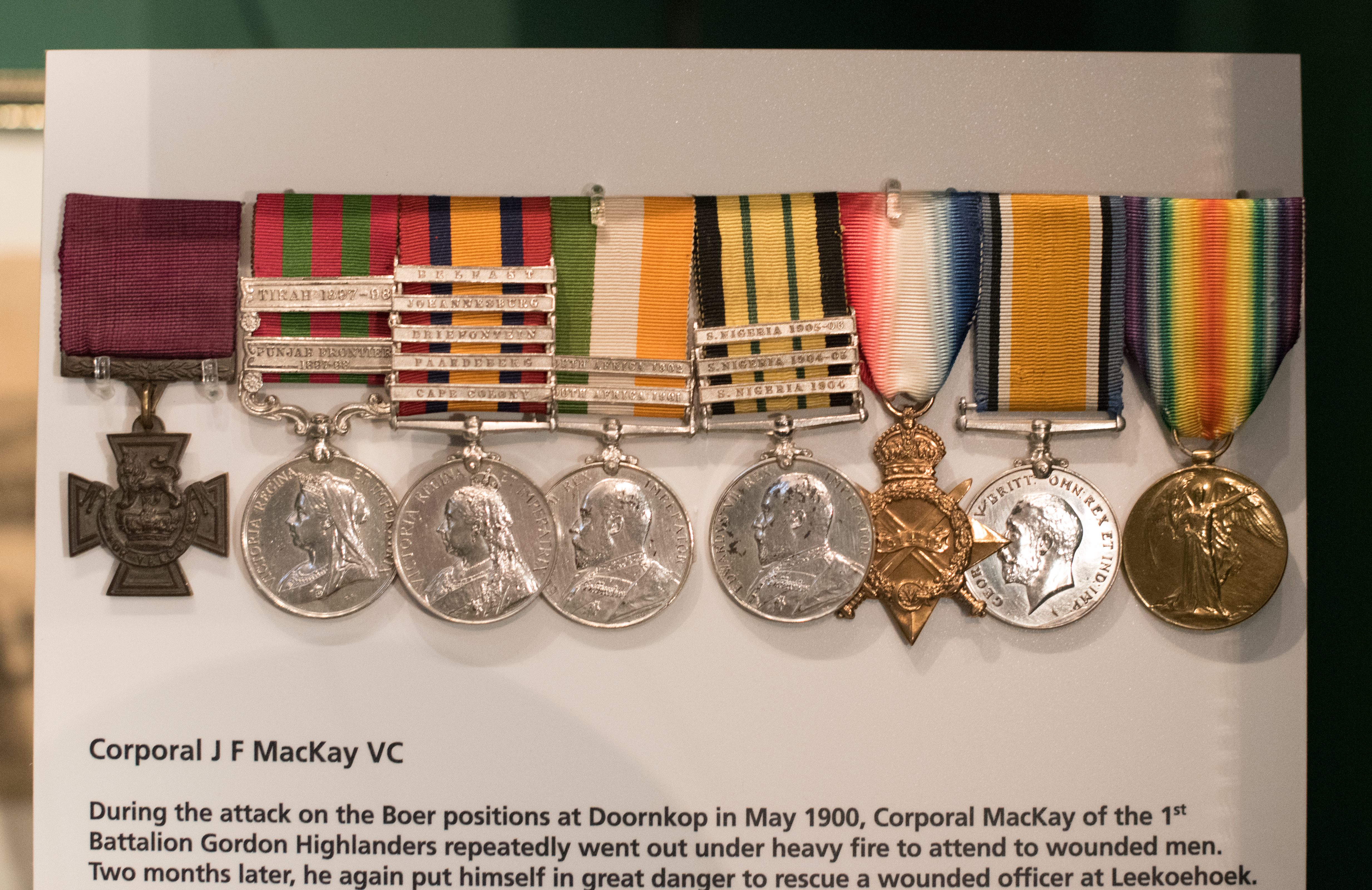 Medals of Corporal J F Mackay VC held as part of collection at Gordon Highlanders Museum